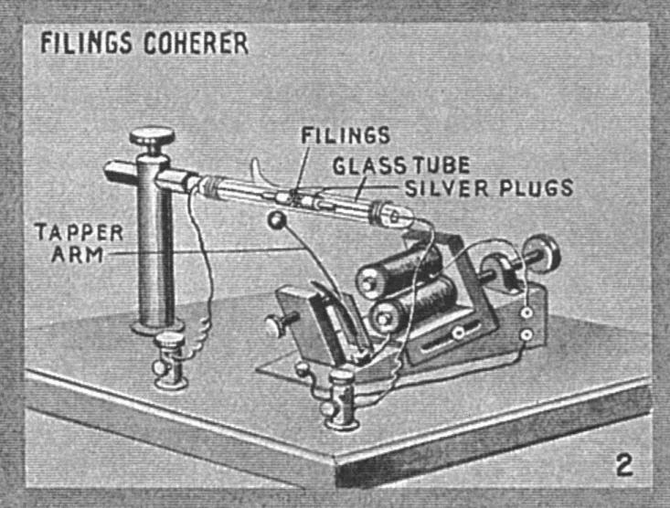 Drawing of a Branly coherer radio detector with a "tapper" or decoherer mechanism. Coherers were used in the first radio receivers during the wireless telegraphy era from about 1900 to 1910. The Branly coherer was a tube with two silver "plugs" or electrodes, with loose metal filings in the space between. When a radio signal from an antenna was applied across the electrodes, it caused the resistance of the filings to decrease, making the device conductive. The coherer was also connected in a DC circuit powered by a battery, with an earphone or a Morse paper tape recorder. When the coherer turned "on", it made a sound in the earphone or a mark on a paper tape, recording the code symbol received. However, the coherer remained in the conductive state after the radio signal disappeared. To prepare it to receive the next radio signal, the filings had to be mechanically disturbed to return the device to the nonconductive "off" state. This was done by a "tapper" or decoherer consisting of an electromagnet connected in the DC circuit. When the coherer turned on, the electromagnet attracted the arm with the metal ball to tap the coherer tube, returning the coherer to the nonconductive state.